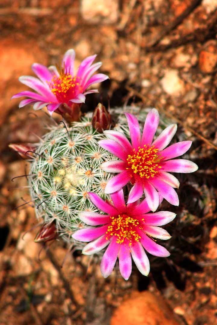 Arizona Desert Cactus Flower